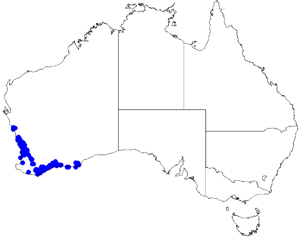 Boronia scabra downloaded from Australasian Virtual Herbarium 10 April 2019 using This download included all the environmental overlay fields and ALA's data checking fields including "cultivated / escapee", "outside expert range for species", "latitude is negated", "coordinates are transposed", "taxon misidentified", "habitat incorrect for species", and "suspected outlier" (711 fields). Deleting occurrences for which any of the above were true, 46 specimens with coordinates were deleted.